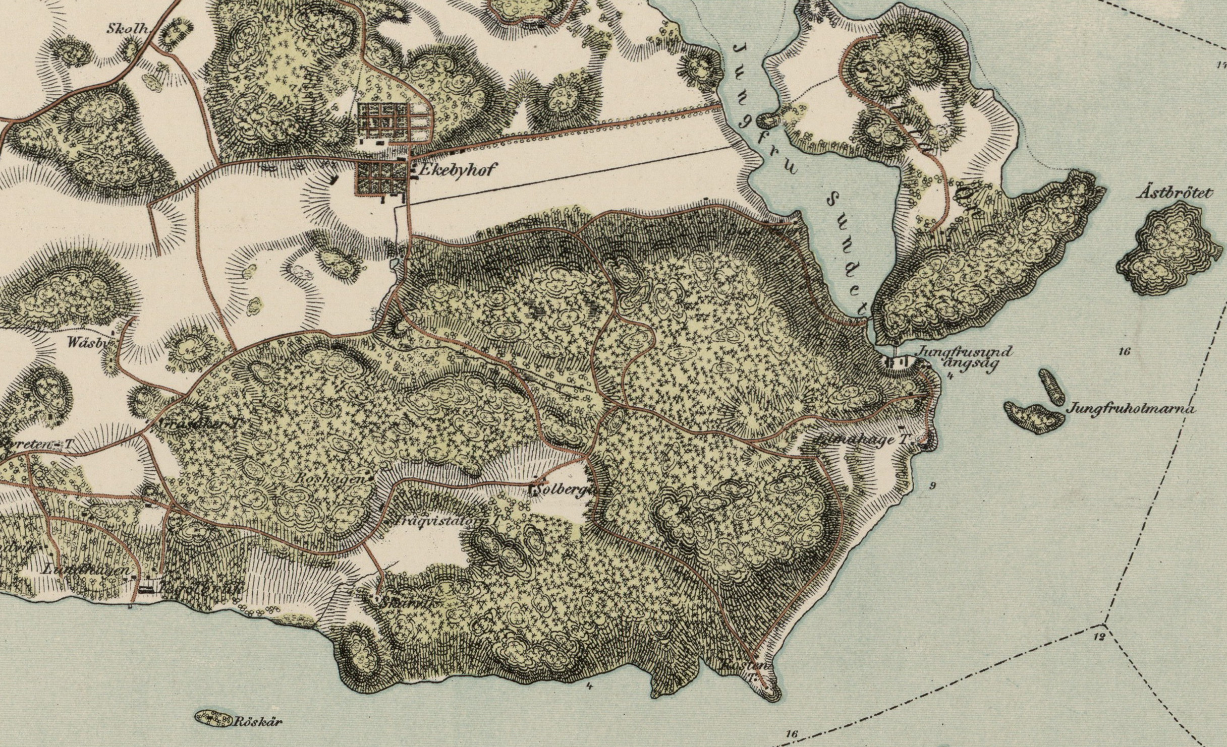 Trakten omkring Stockholm 1861 med Ekebyhov och Jungfrusundsåsen